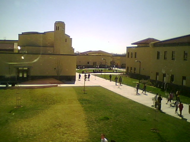 Cesar Chavez High School, Stockton, California, Art(F) and D buildings